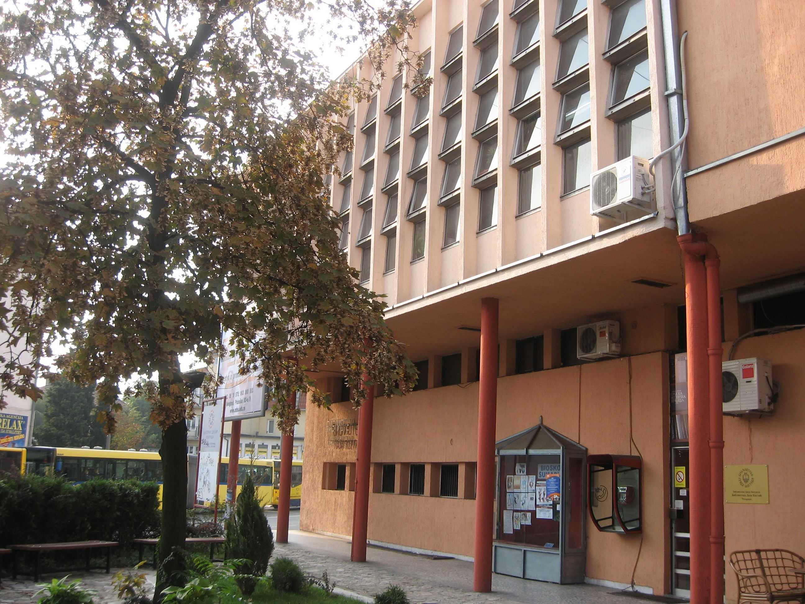 Public library "Laza Kostić" Banovo brdo, municipality Čukarica